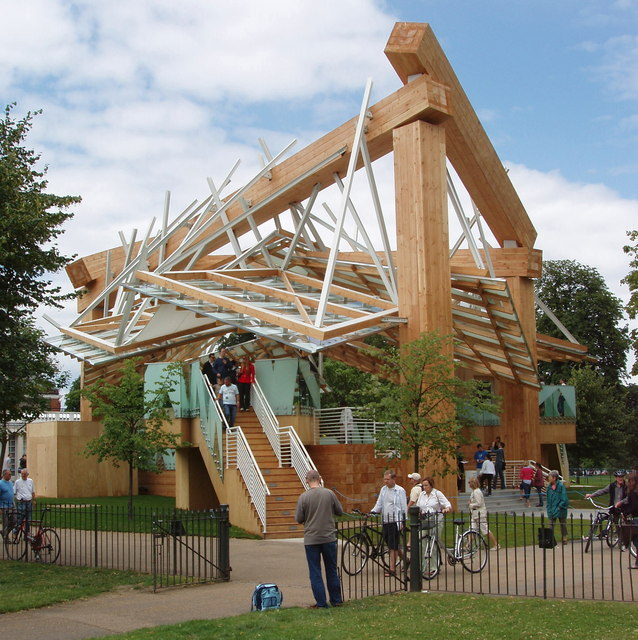 Serpentine Gallery Pavilion 2008 by Frank Gehry Each summer for 9 years there has been a temporary pavilion here, by an eminent architect who has not previously designed a building in England. This one is an urban street, open both ends, supported by a massive steel frame with wood cladding. The roof is not continuous, it is composed of overlapping glass panels so there are views through the building to the surrounding trees of Hyde Park. See Serpentine Gallery website The pavilion is open from 20th July to 19th October.